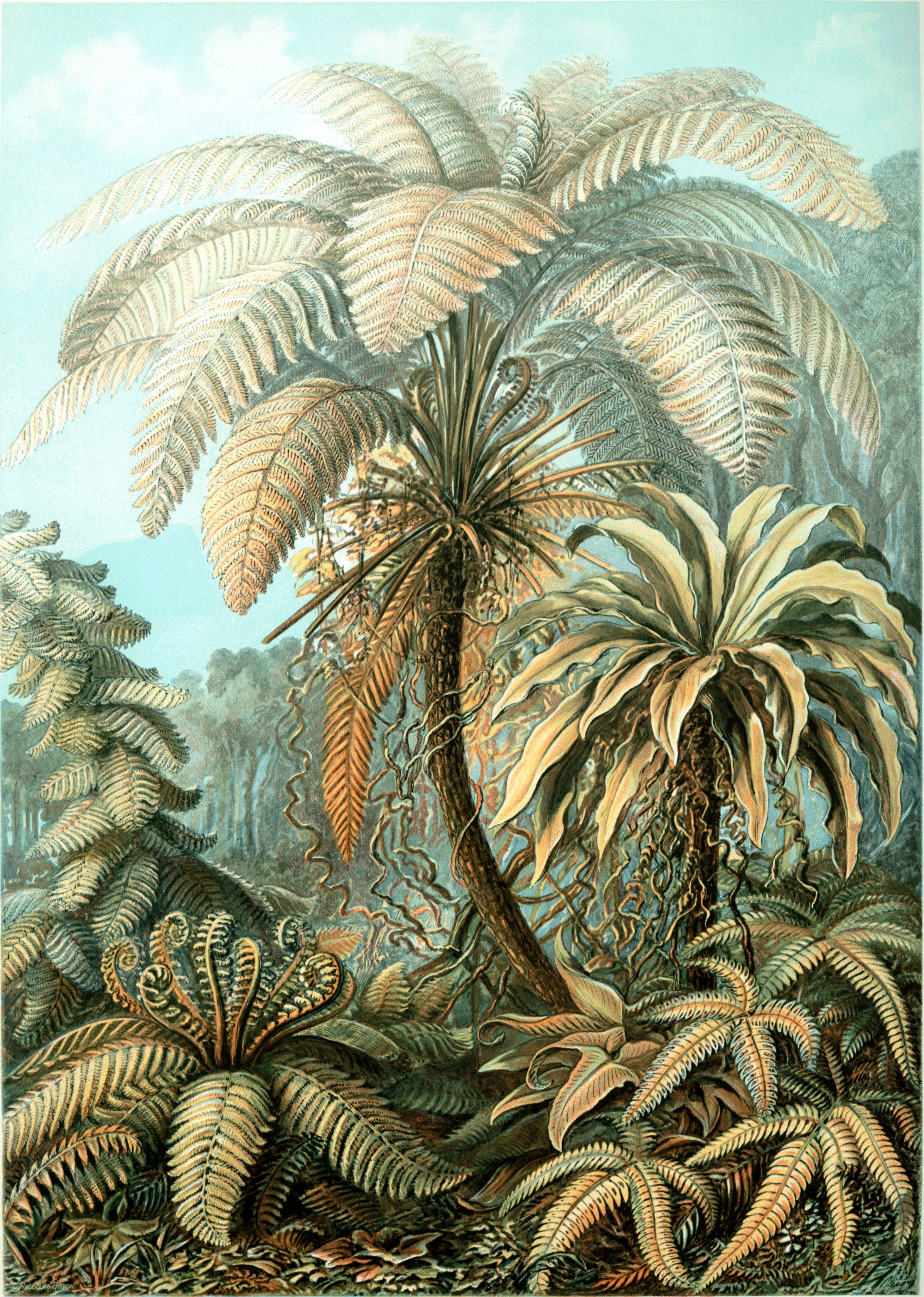 (center): Alsophila sp. (in Cyatheaceae) (left): Polypodium sp. (in Polypodiaceae) (right): Asplenium nidus = Asplenium nidus L. (bottom left, above): Angiopteris sp. (in Marattiaceae) (bottom left, below): Monogramma sp. (in Pteridaceae) (bottom right): Pteris quadriaurita = Pteris quadriaurita Retz.